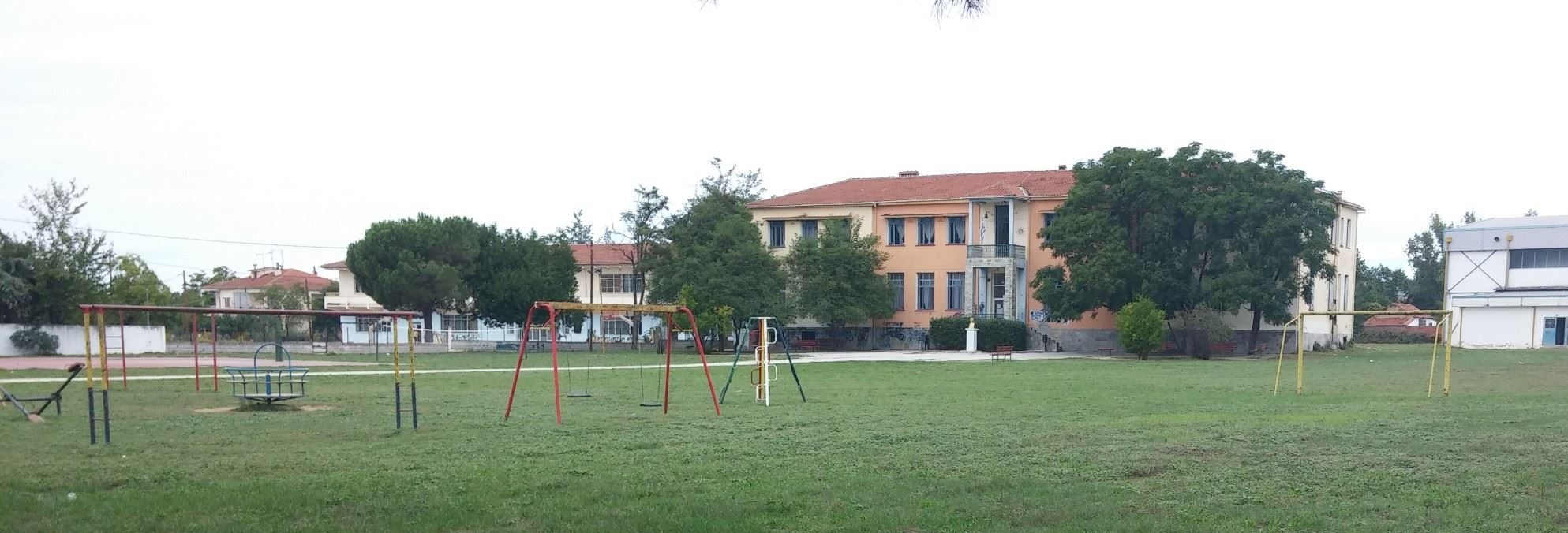 Zagiveri School Building